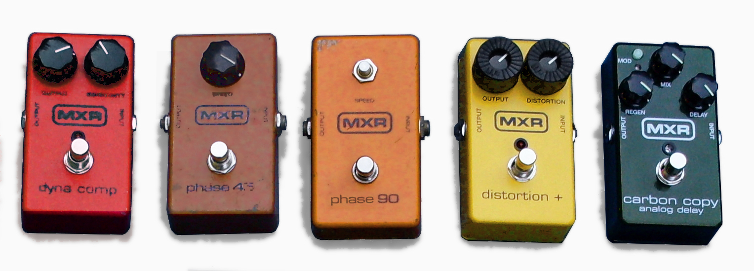 MXR effect pedals MXR M-102 Dyna Comp (1981-1984 or later; Box logo with LED) MXR M-105 Phase 45 (1975-1981; Box logo without LED) MXR M-101 Phase 90 (1975-1981; Box logo without LED) MXR M-104 Distortion + (1981-1984 or later; Box logo with LED) MXR M-166 Carbon Copy Analog Delay (1981-1984 or later; Box logo with LED)